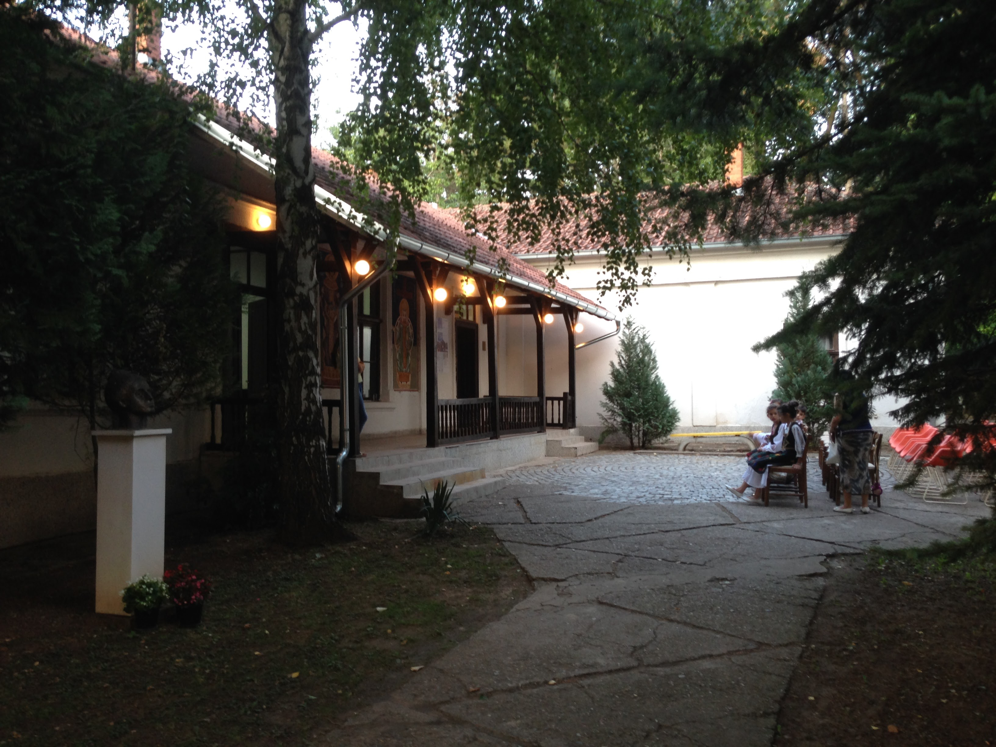 International Art Colony Sićevo, Serbia